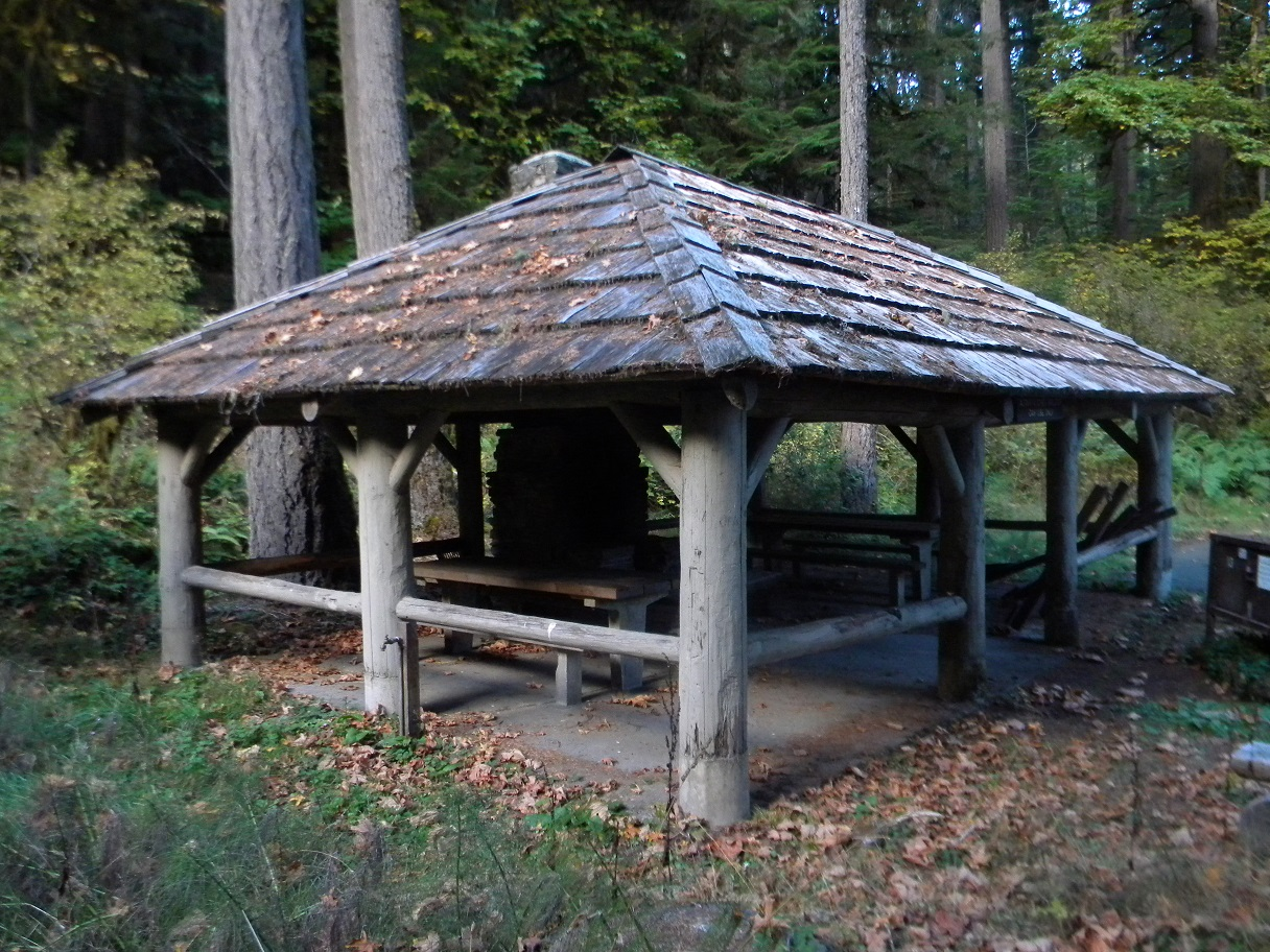 Altair Campground Community Kitchen Sign at Campground entrance has spelling of 'Altaire' but structure forgoes the 'e'.